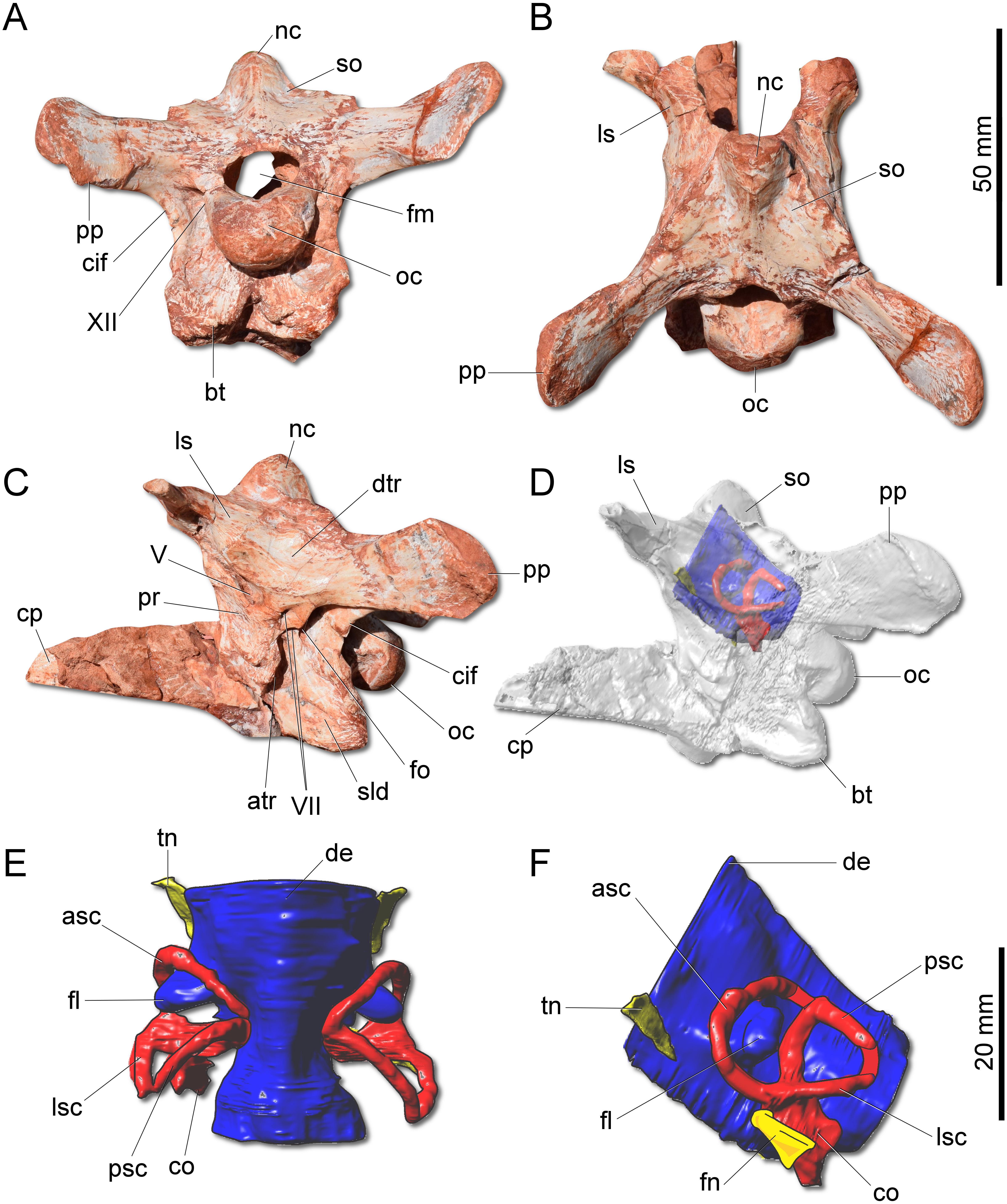 Figure 4: Photographs and reconstruction of the braincase and endocast of CAPPA/UFSM 0009. (A) Braincase in caudal view. (B) Braincase in dorsal view. (C) Braincase in left lateral view. (D) Three-dimensional rendering of the neurocranium in left lateral view with the endocast highlighted. (E) Endocasts of the brain, inner ear, and cranial nerves in dorsal view. (F) Endocasts of the brain, inner ear, and cranial nerves in left lateral view. asc, anterior semicircular canal; atr, anterior tympanic recess; bt, basal tubera; co, cochleae; cif, crista interfenestralis; cp, cultriform process; de, dorsal expansion; dtr, dosal tympanic recess; fl, floccular fossae lobe; fm, foramen magnum; fn, facil nerve; fo, fenestra ovalis; ls, laterosphenoid; lsc, lateral semicircular canal; nc, nuchal crest; oc, occipital condyle; pp, paraoccipital process; pr, prootic; psc, posterior semicircular canal; sld, semilunar depression; so supraoccipital; tn, trigeminal nerve; V, notch of the trigeminal nerve; VII, foramen for the facial nerve; XII, foramen for the hypoglossal nerve.